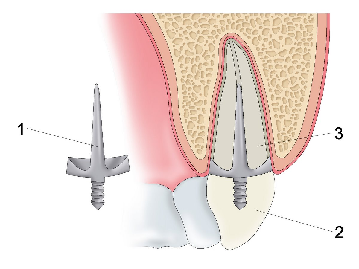 Schröder crown (1 - post with cap, 2 - crown, 3 - root)